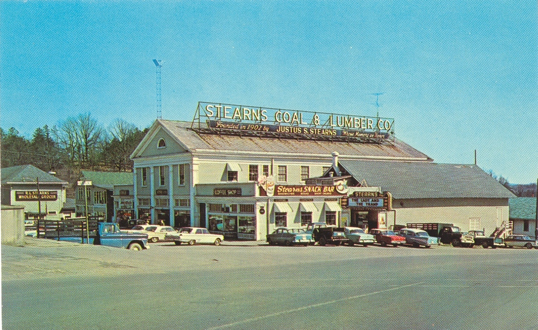 My dad was raised near here in a coal camp called "Worley" (KY). Everyone worked for this company.